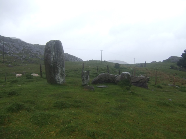 Cashelkeelty Stone Circle - Eastern Group. The eastern group of stones to match the western set 268467. Even in late June the weather up on the exposed hillside can seem wintry.